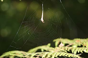 web of Acusilas coccineus from Okinawa.